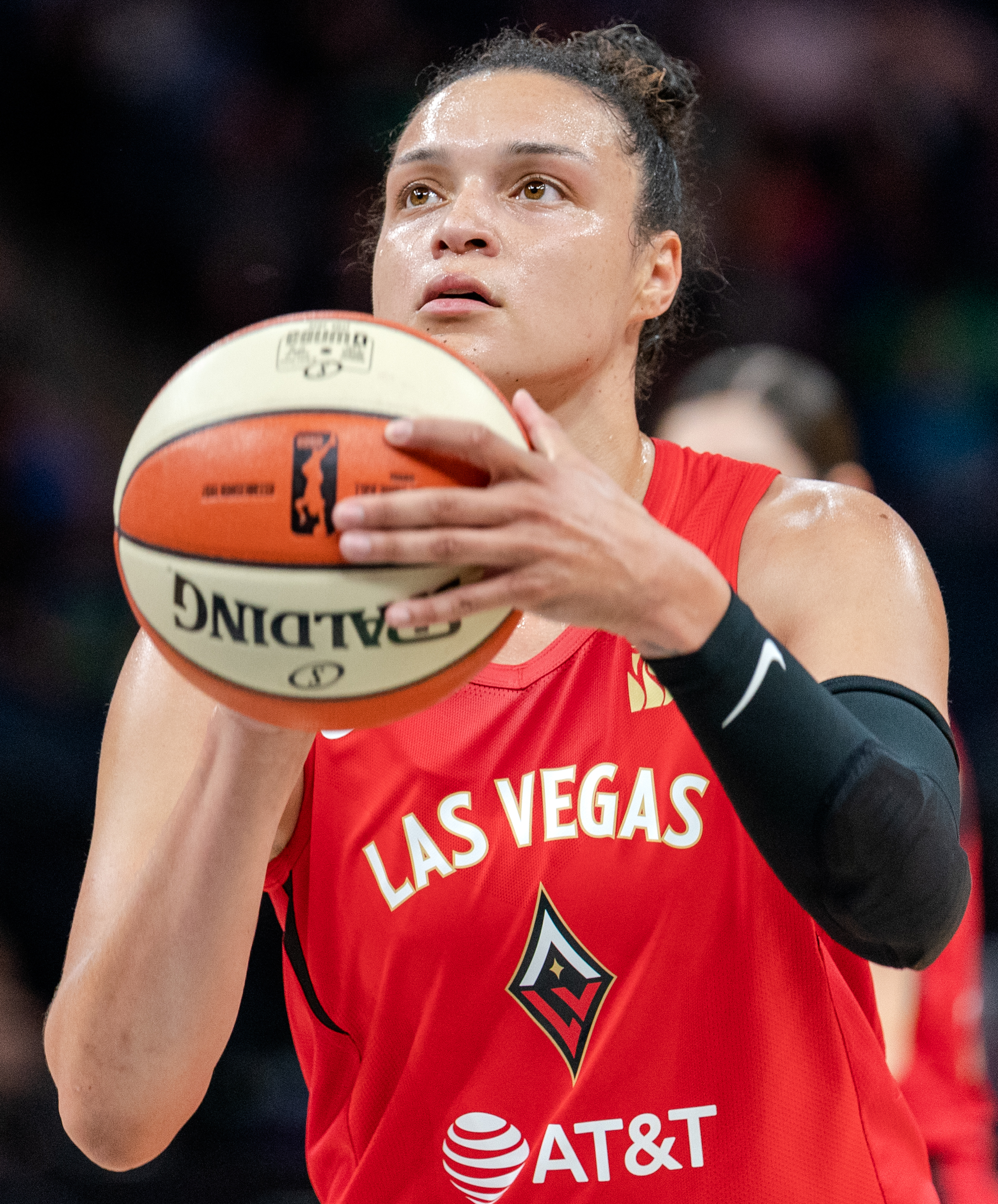 Las Vegas Aces, Kayla McBride playing in a game against the Minnesota Lynx on June 1, 2019